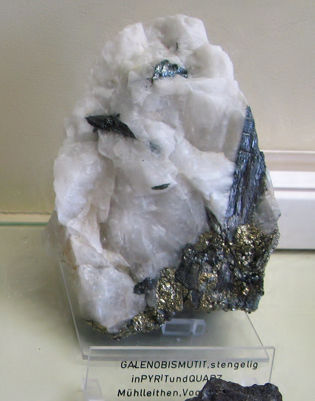 Galenobismutite in Pyrite and Quartz - Locality: Mühlleithen, Vogtland County (Germany) - Exposed in the Mineralogical Museum, Bonn, Germany